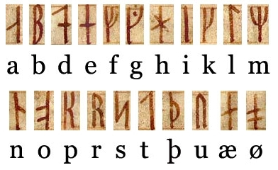 Self-made illustration of the medieval futhark used in the Codex Runicus. Based on description at [1] and [2] (original description).